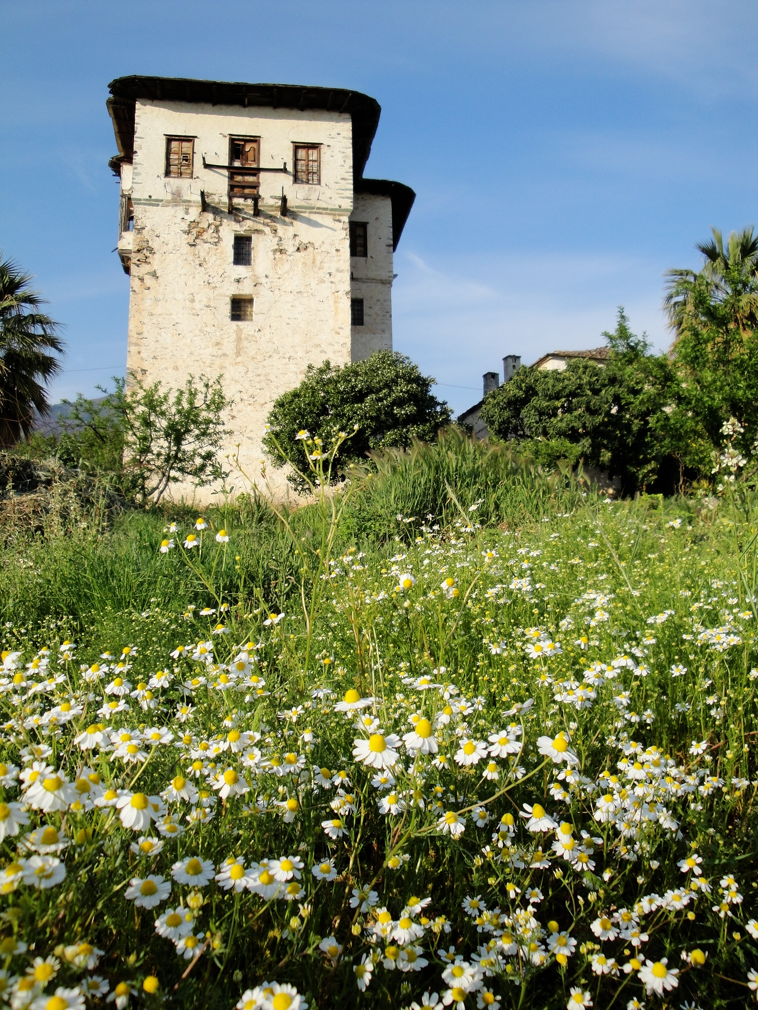 The Pelion Towers are the biggest stone built buildings in the area with exquisite visual characteristics that combine building elements of Mountain Pelion of the 17th, 18th and 19th century.